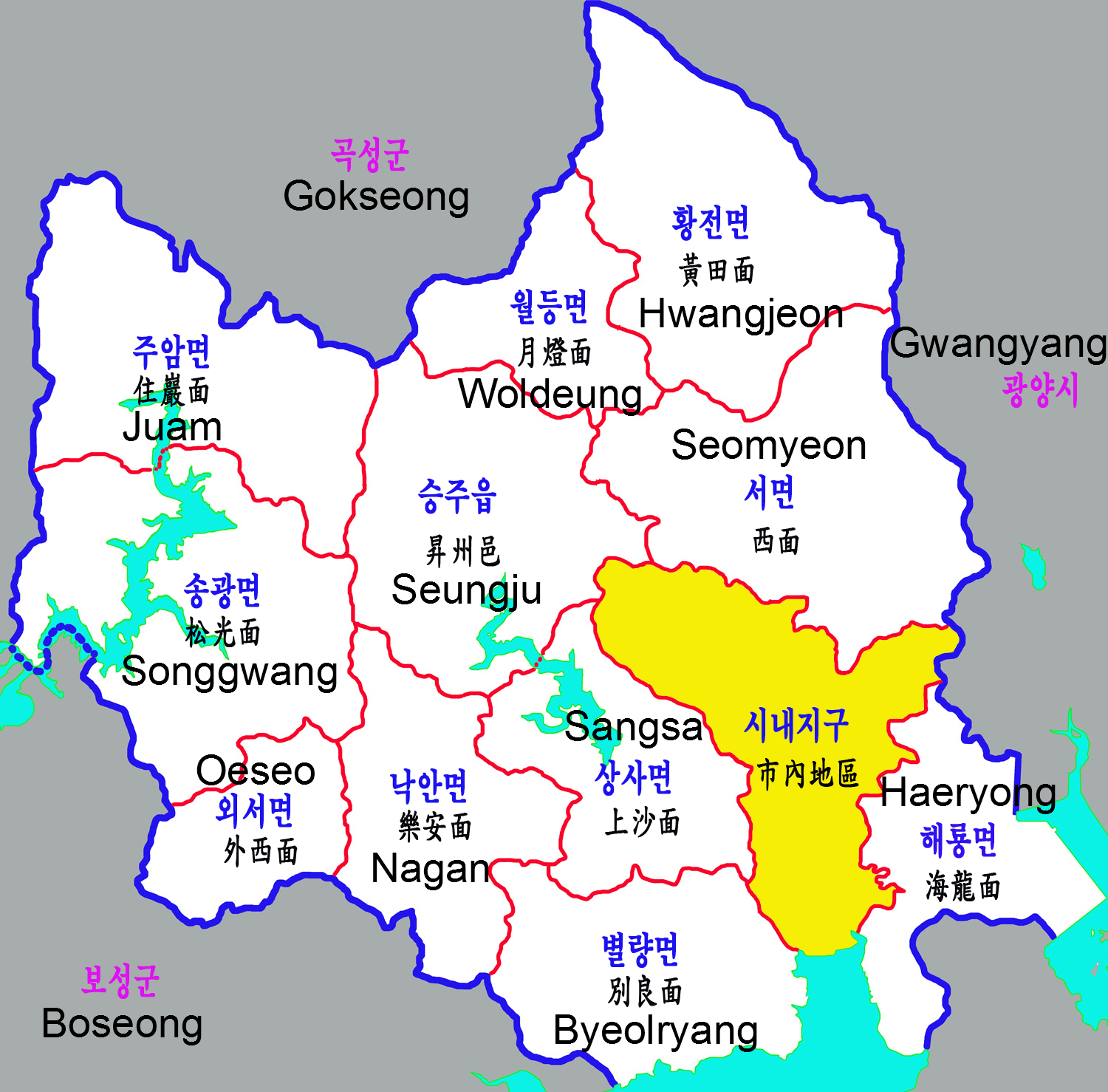 Subdivisions of Suncheon (Jeollanam-do)